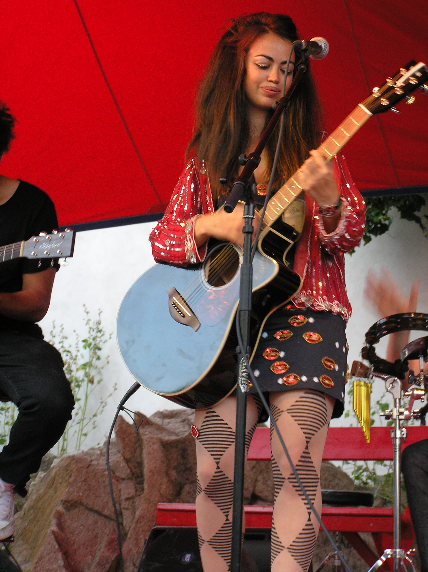 Danish folk-pop singer Aura Dione on stage at Gæstgiveren, Allinge, Bornholm, Denmark